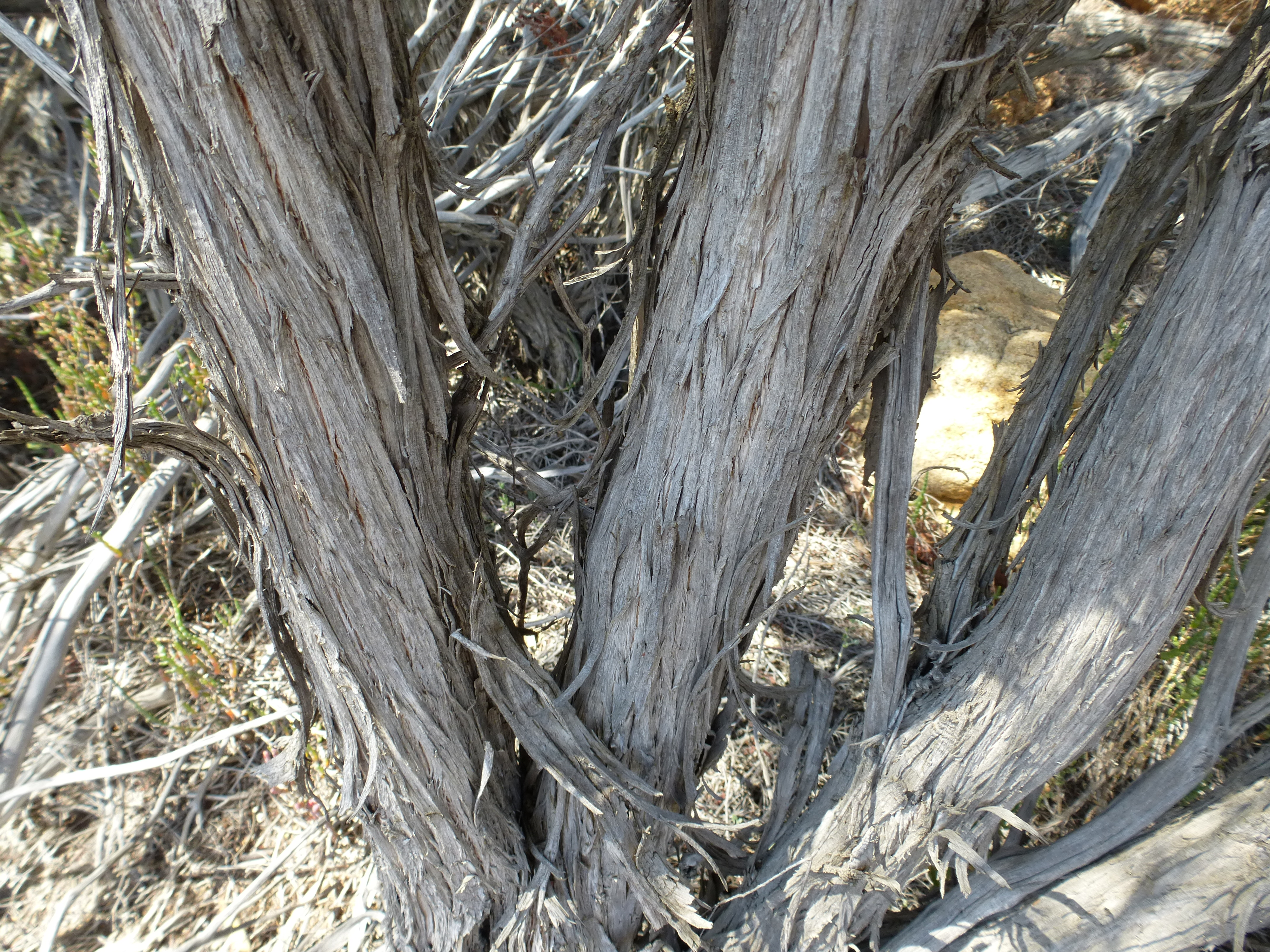 Melaleuca halmaturorum growing near a salt lake, 5km S of Hyden